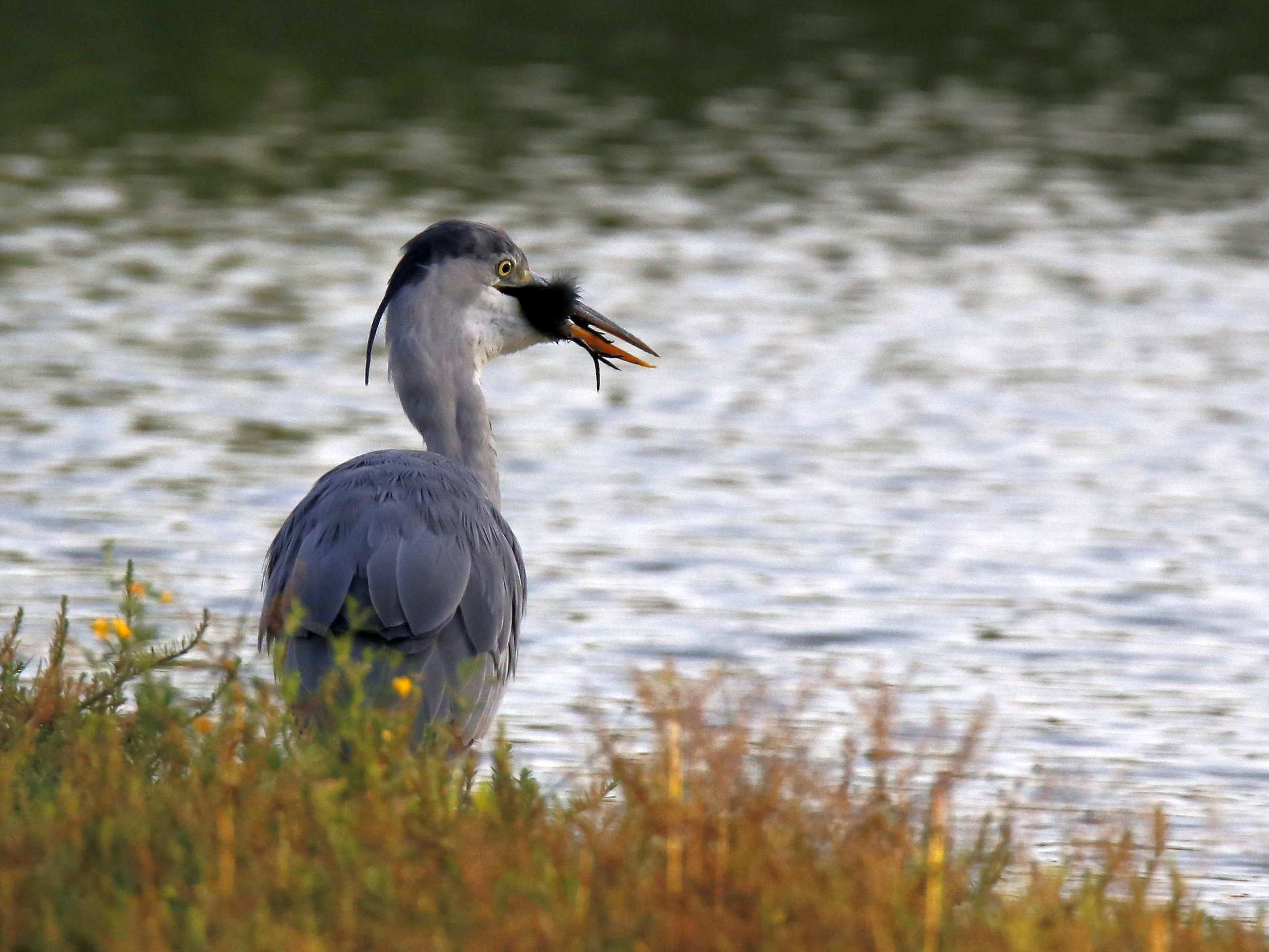 Ardea cinerea eating a Gallinula chloropus chick